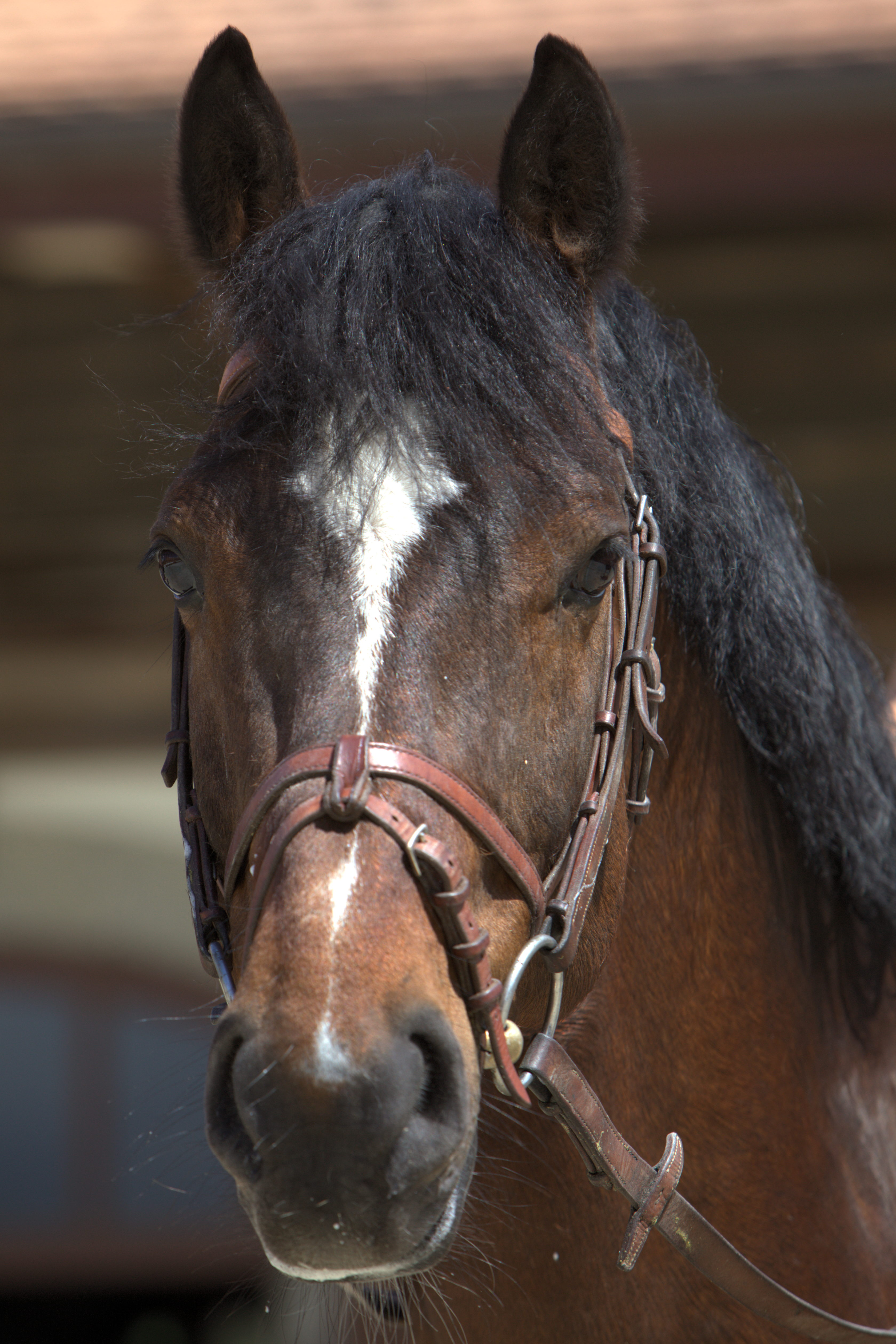 Swiss national stud far, Avenches The making of this document was supported by Wikimedia CH. (Submit your project!) For all the files concerned, please see the category Supported by Wikimedia CH.